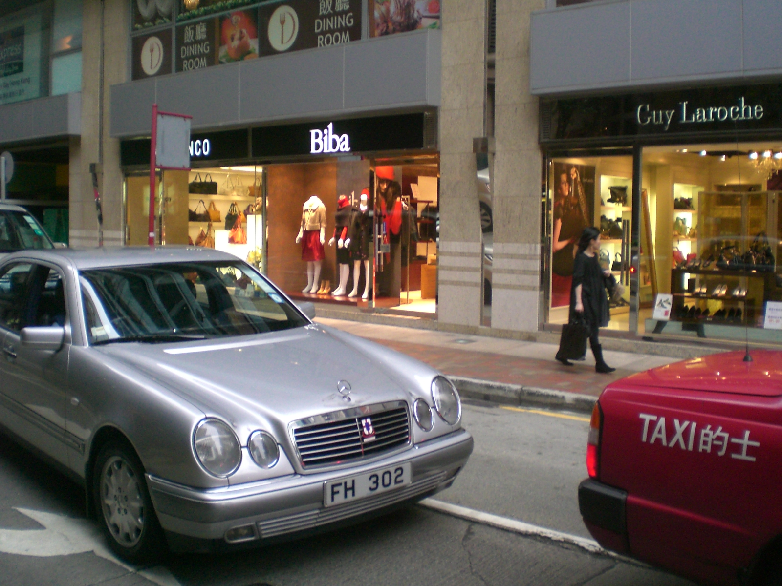 銅鑼灣霎東街香港銅鑼灣快捷假日酒店, Express by Holiday Inn CAUSEWAY BAY Hotel, Causeway Bay, Hong Kong.